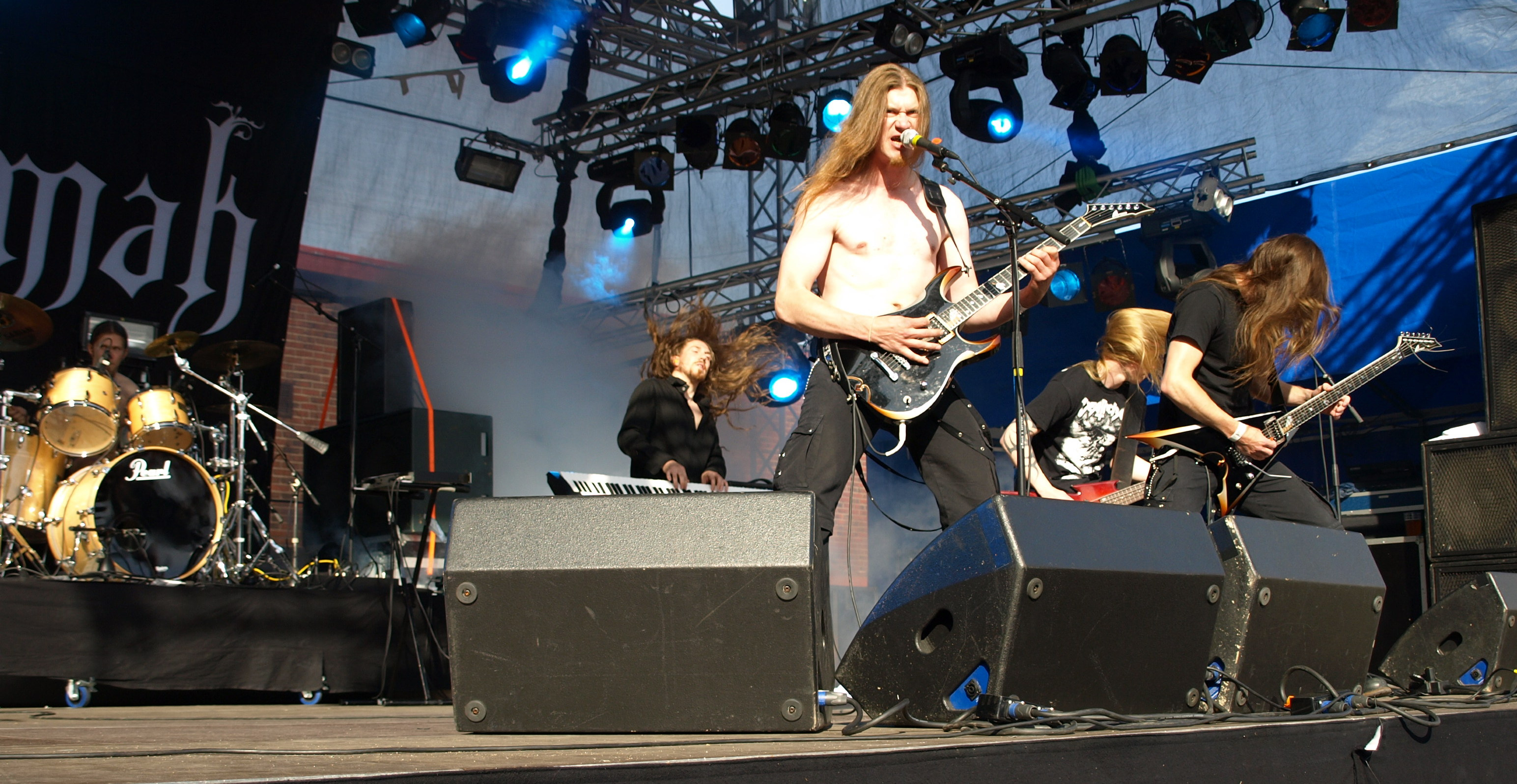 Finnish melodic death metal band Kalmah live at Jalometalli 2008 in Oulu.